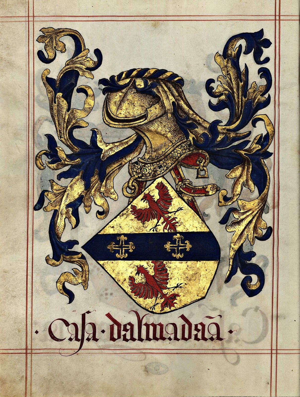 Book of King of Arms, House of Almada (fl 60)